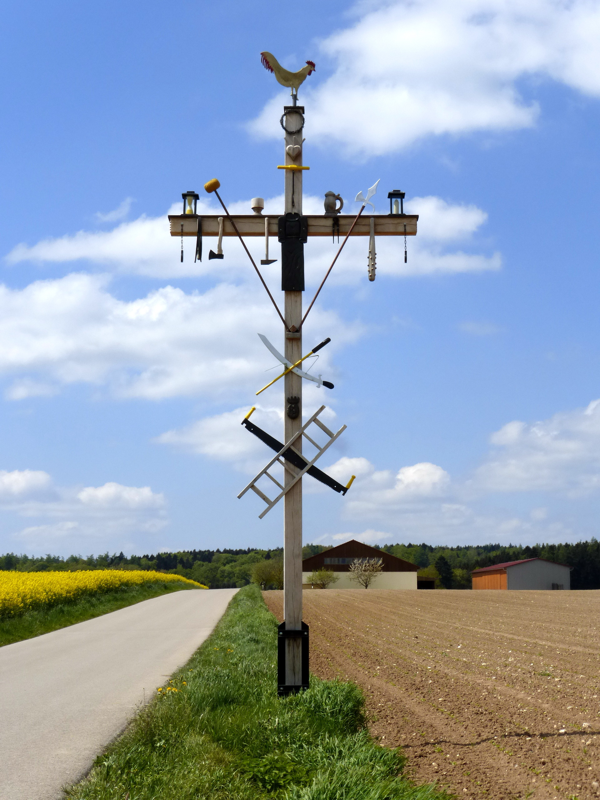 Cross with the Arma Christi near Appertshofen (Stammham), north of Ingolstadt, Bavaria